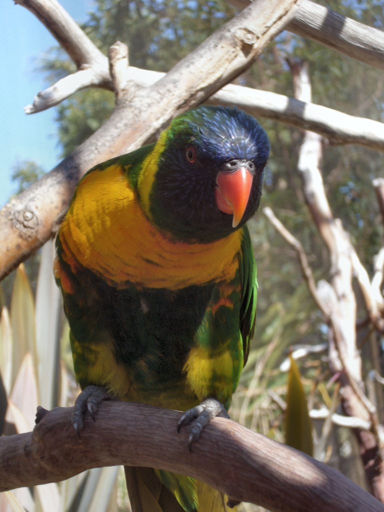 Unidentified lorikeet Trichoglossus sp.